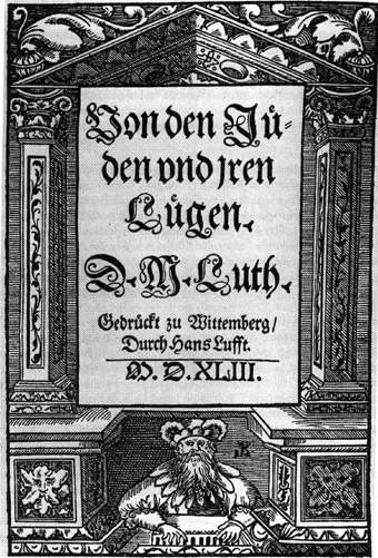 On the Jews and Their Lies (old german: Von den Jüden und Iren Lügen, today german: Von den Juden und ihren Lügen) by Martin Luther, 1543.